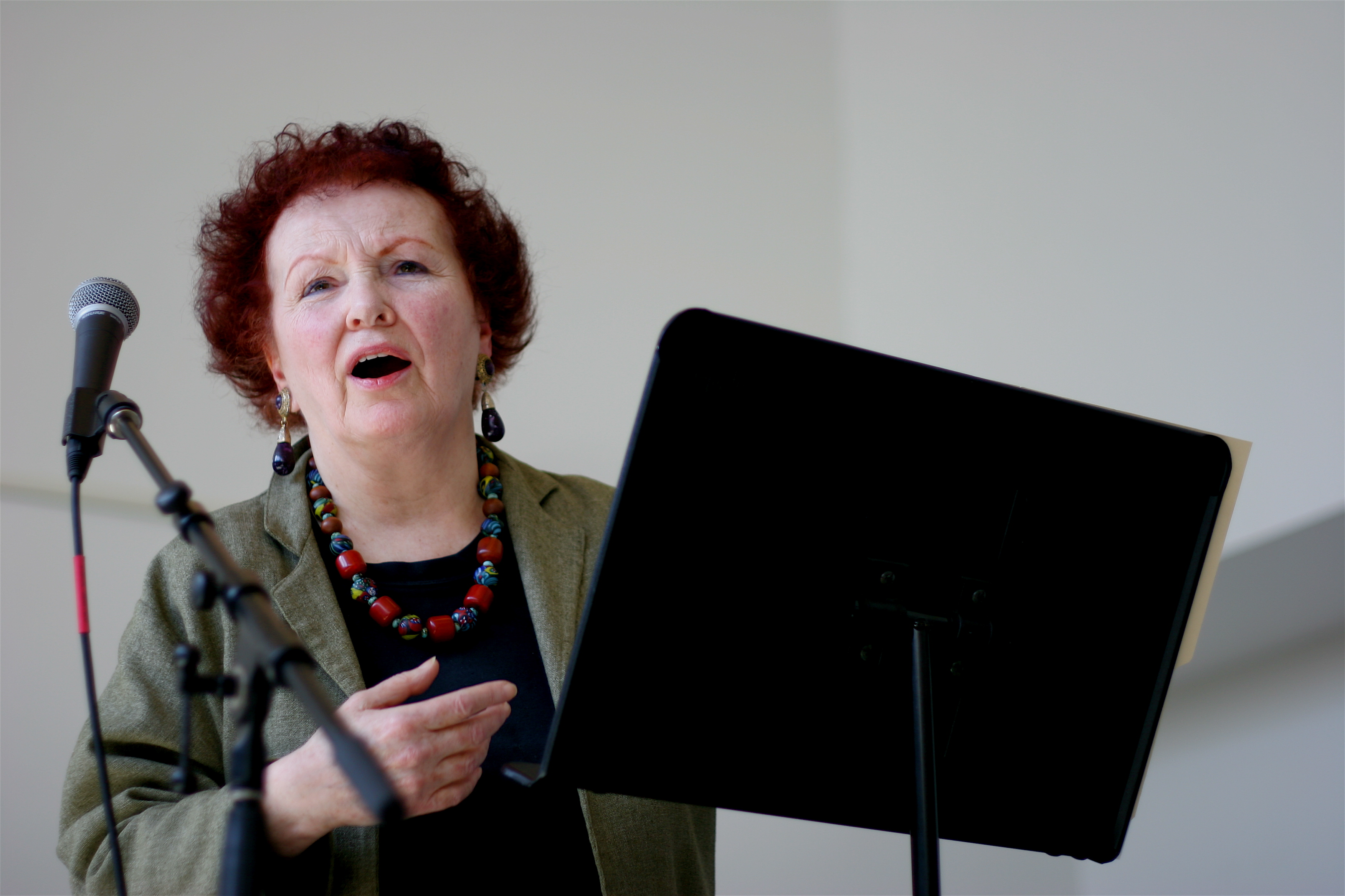 Colette Inez, reading her poetry at Juilliard, New York.